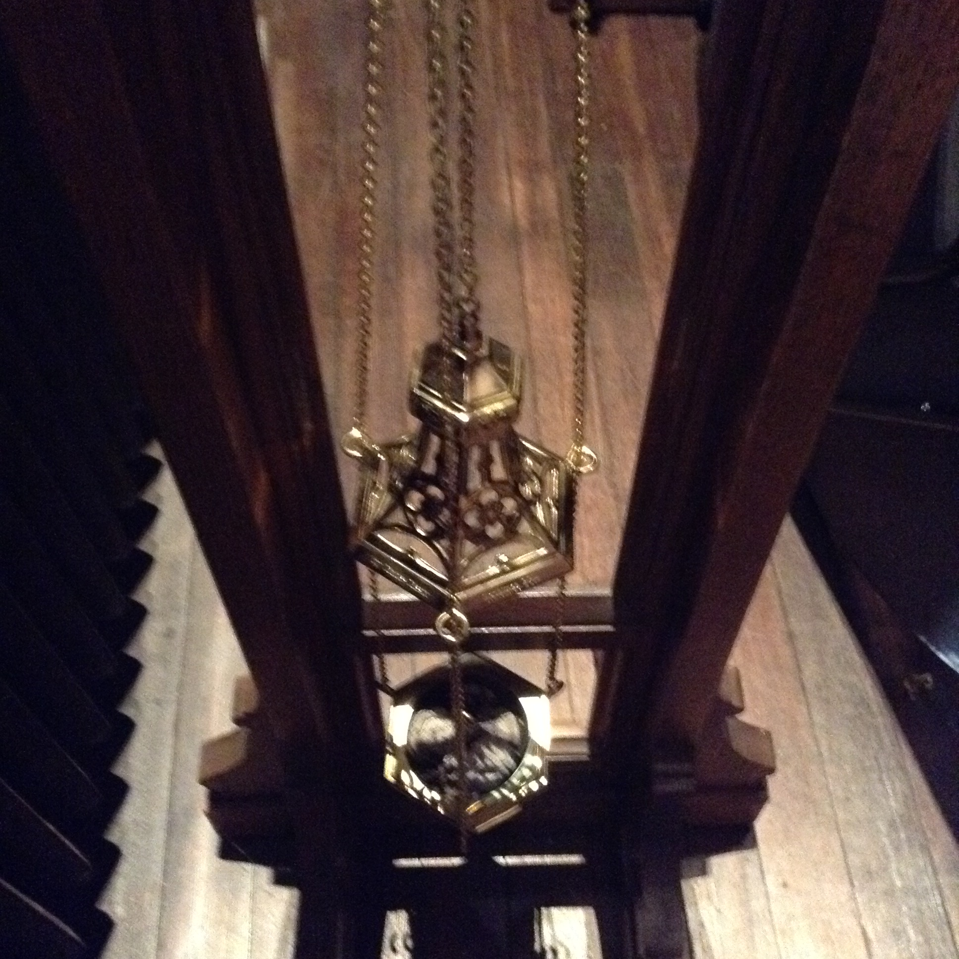 Thurible at St. Mary's Episcopal Church.